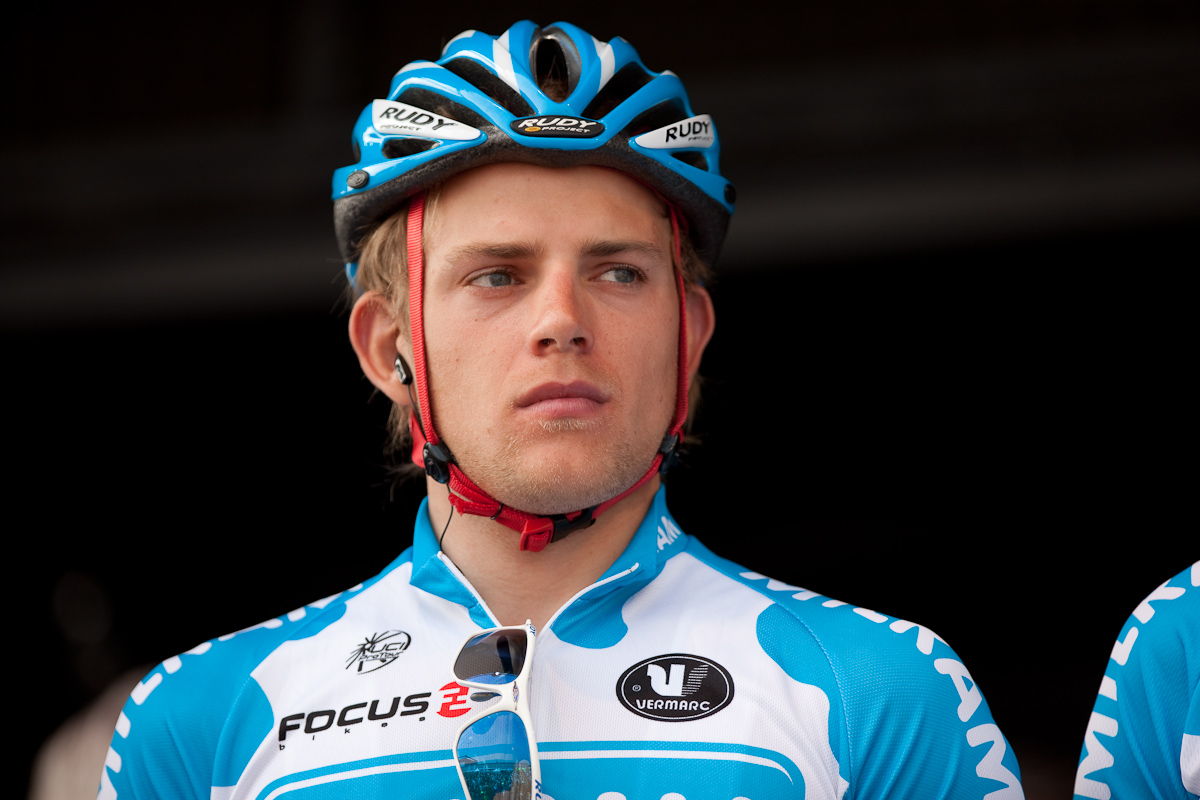 Gerald Ciolek, Eschborn-Frankfurt City Loop 2009